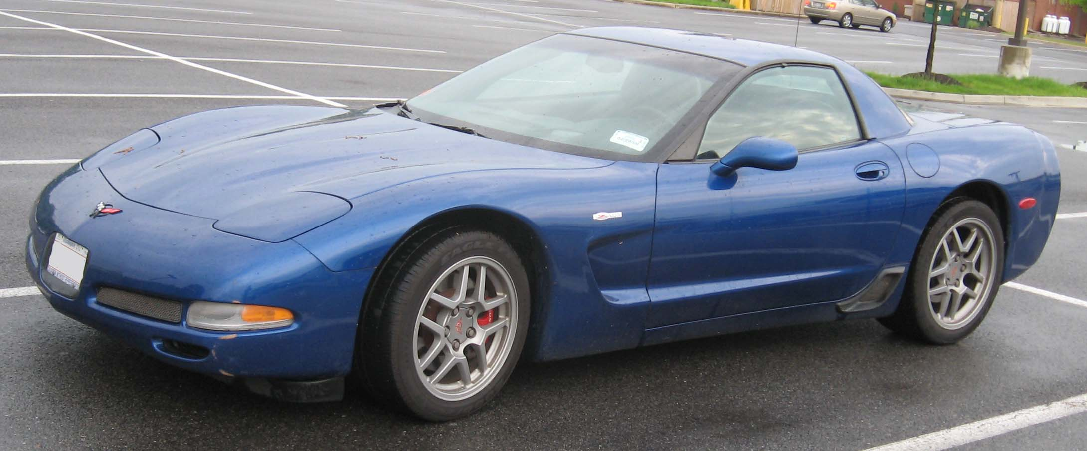 2001-2004 Chevrolet Corvette photographed in USA.